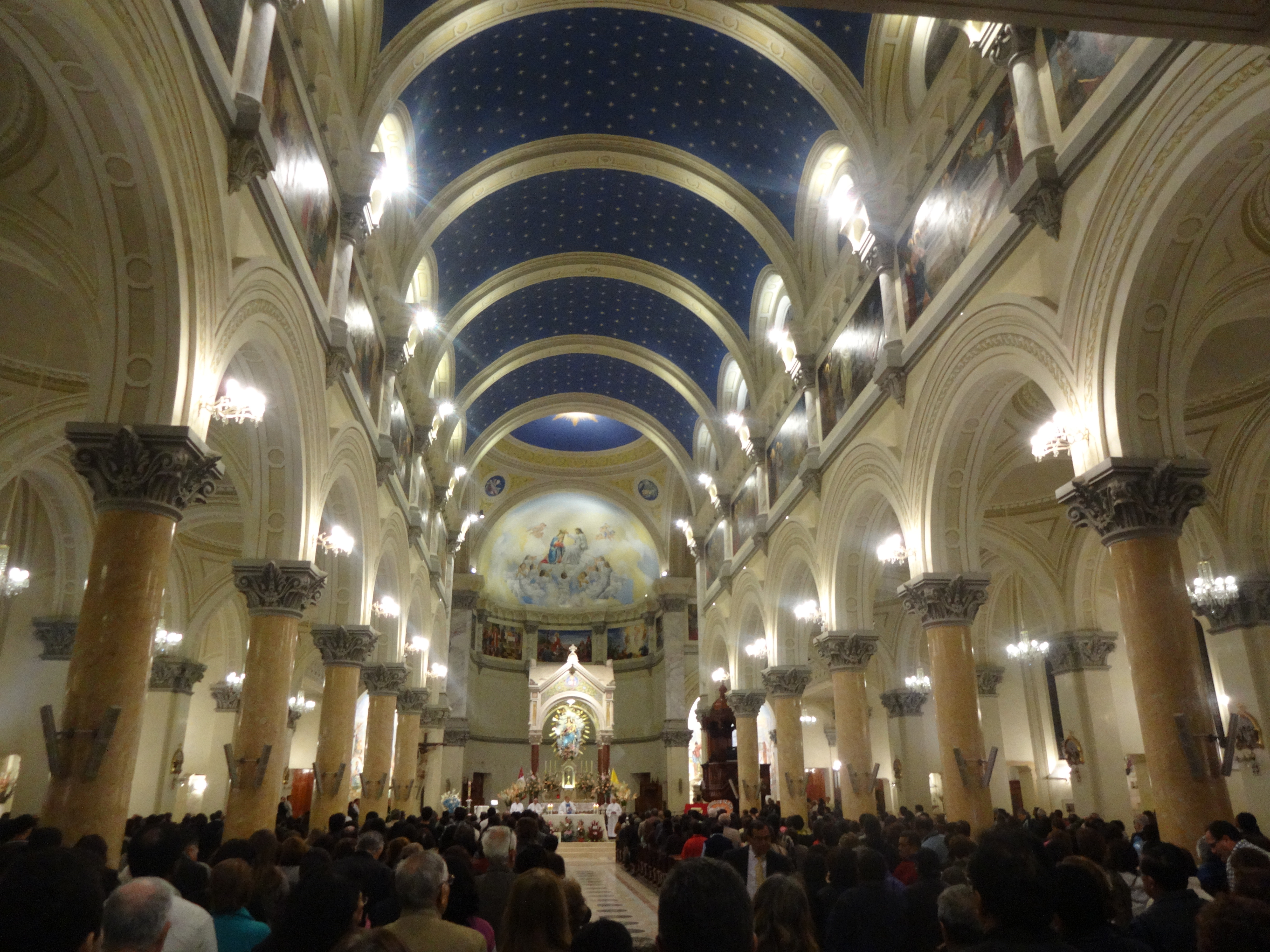 Saint Mary of Help Basilica interior, Breña District, Lima-Peru.